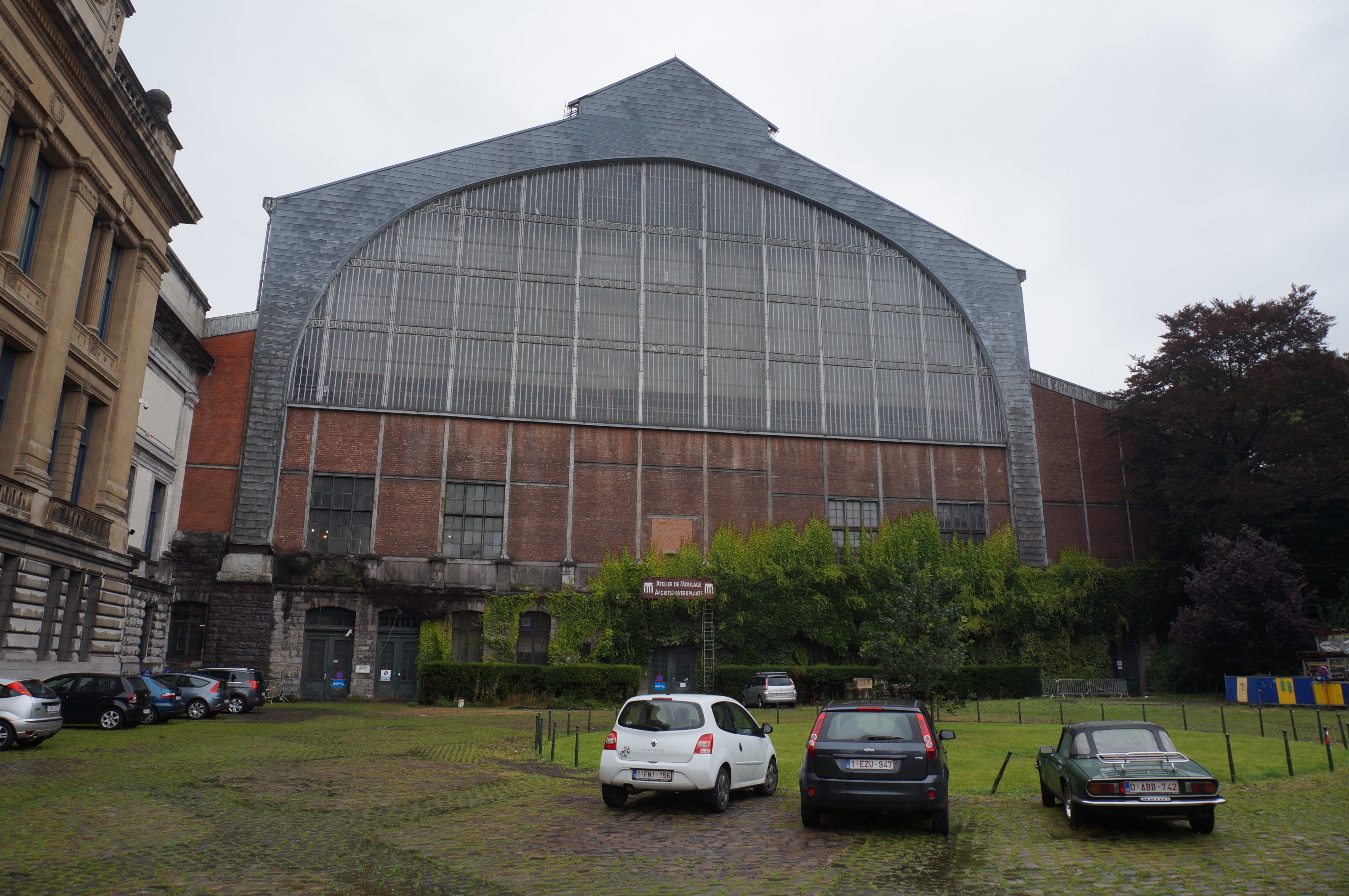 The entrance to the plaster-cast workshop of the Cinquantenaire Museum.